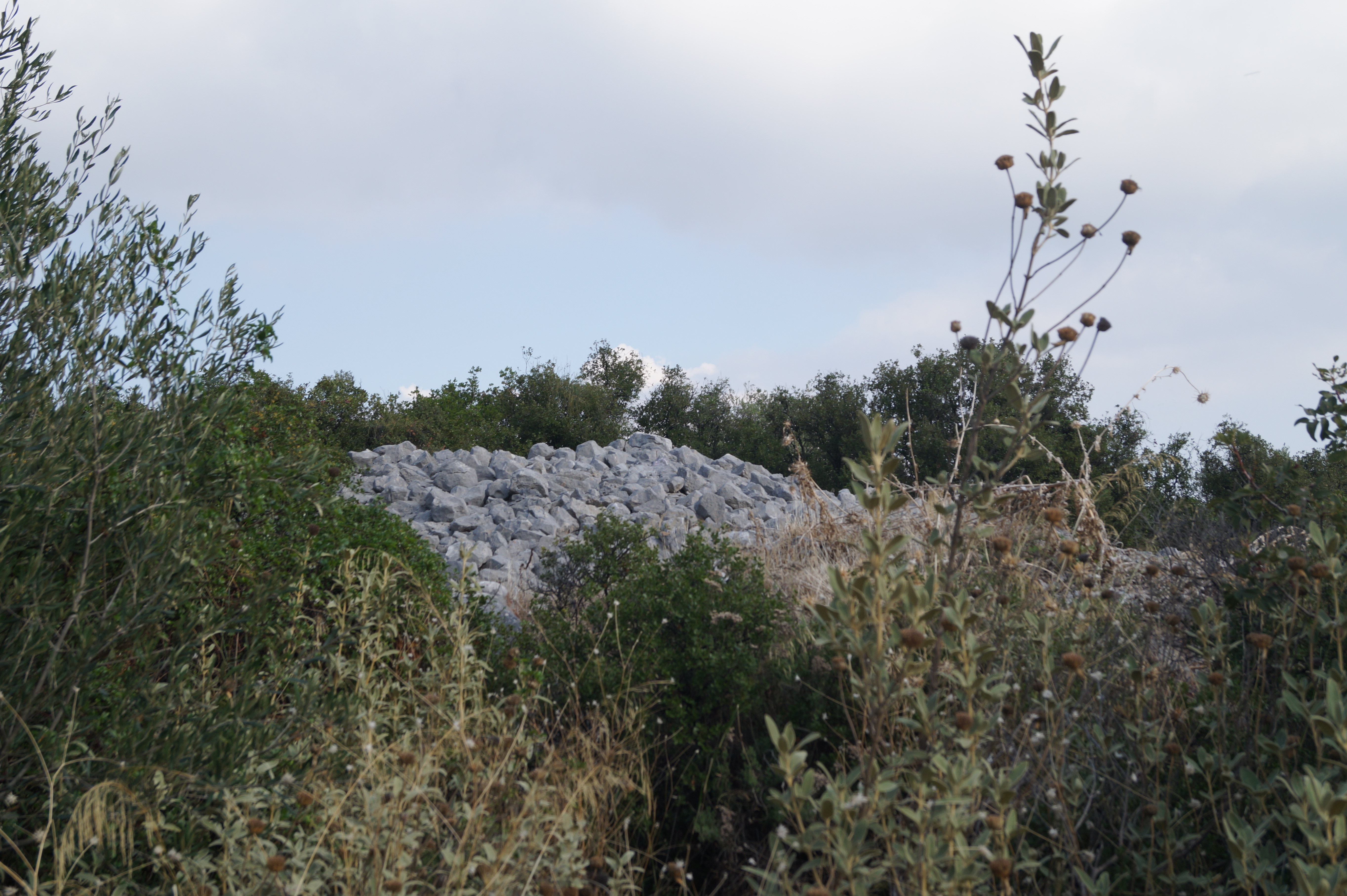 Nea Epidavros, Argolida, Greece: Pile of stones of the early helladic fortification on the acropolis of Vassas.